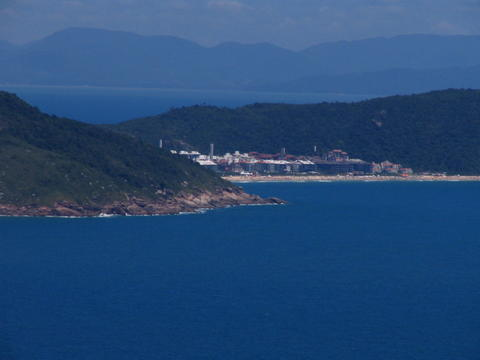 Praia Brava - Brava beach - Florianópolis - island and state of Santa Catarina, Brazil - by Eliane Quadro - january 2006